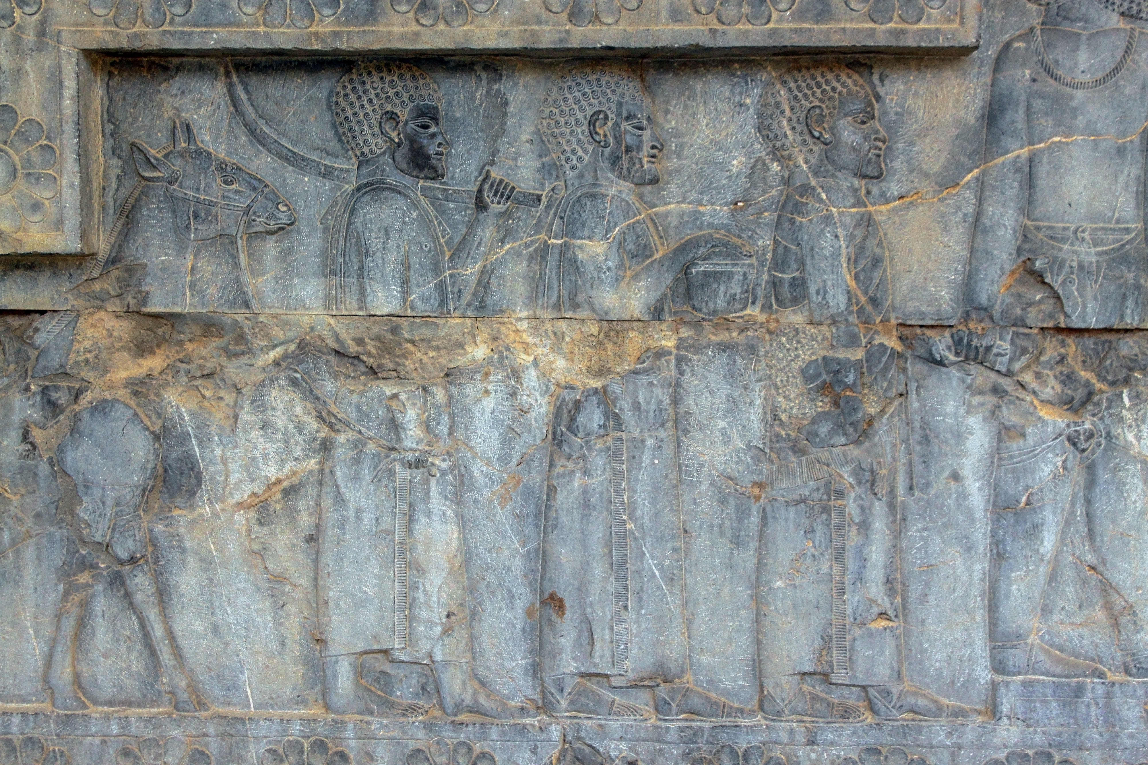 Persepolis was the ceremonial capital of the Achaemenid Empire (ca. 550–330 BC). It is situated 60 km northeast of the city of Shiraz in Fars Province, Iran.